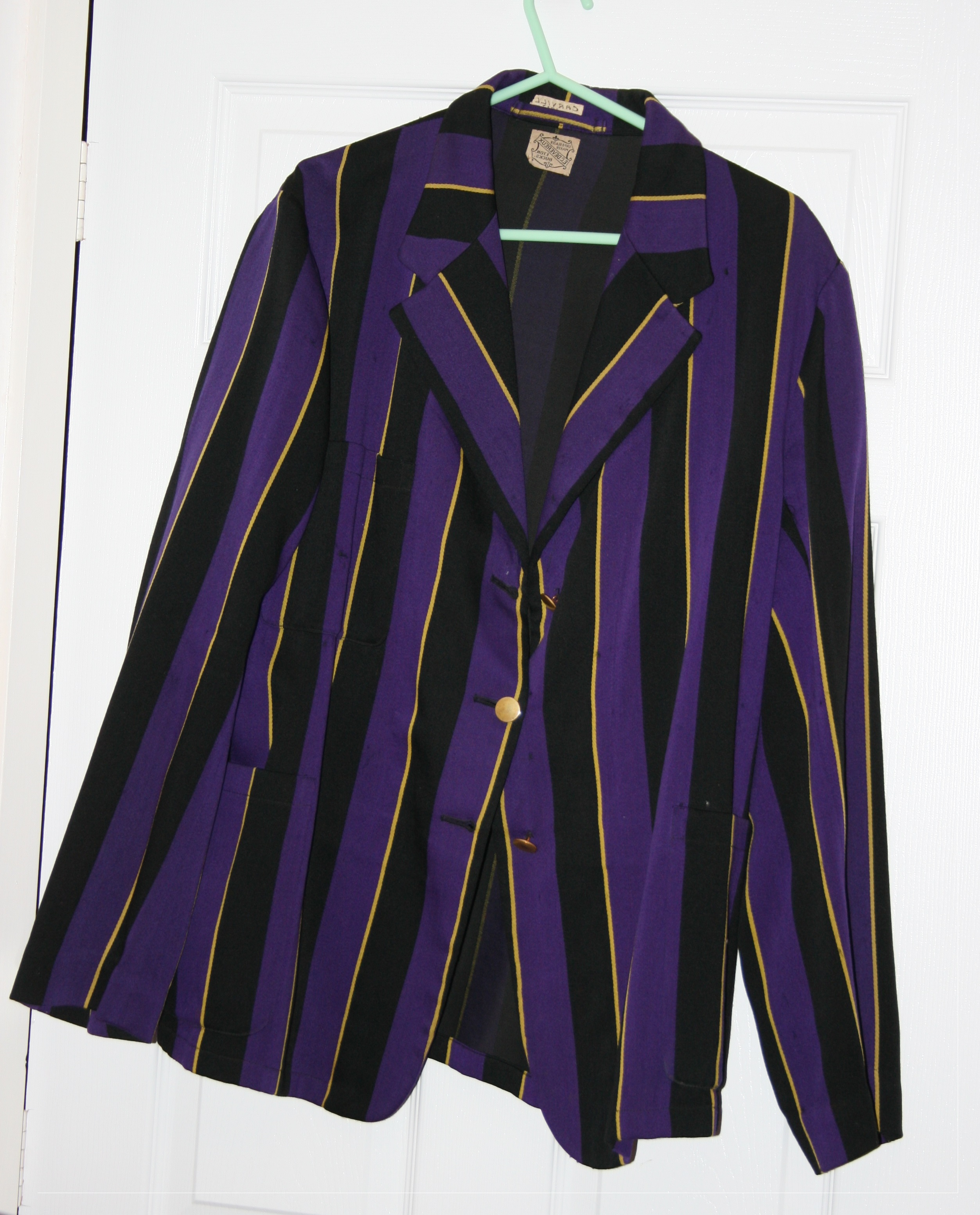 Traditional cricket club blazer from Lewes Priory cricket club, Sussex, England (1937). Originally the property of Dick Carvill, accountant at Harvey's brewery, Lewes. Then belonged to Rex Hudson, former club vice captain and auctioneer/estate agent (who sold Shelley's hotel on a number of occasions)